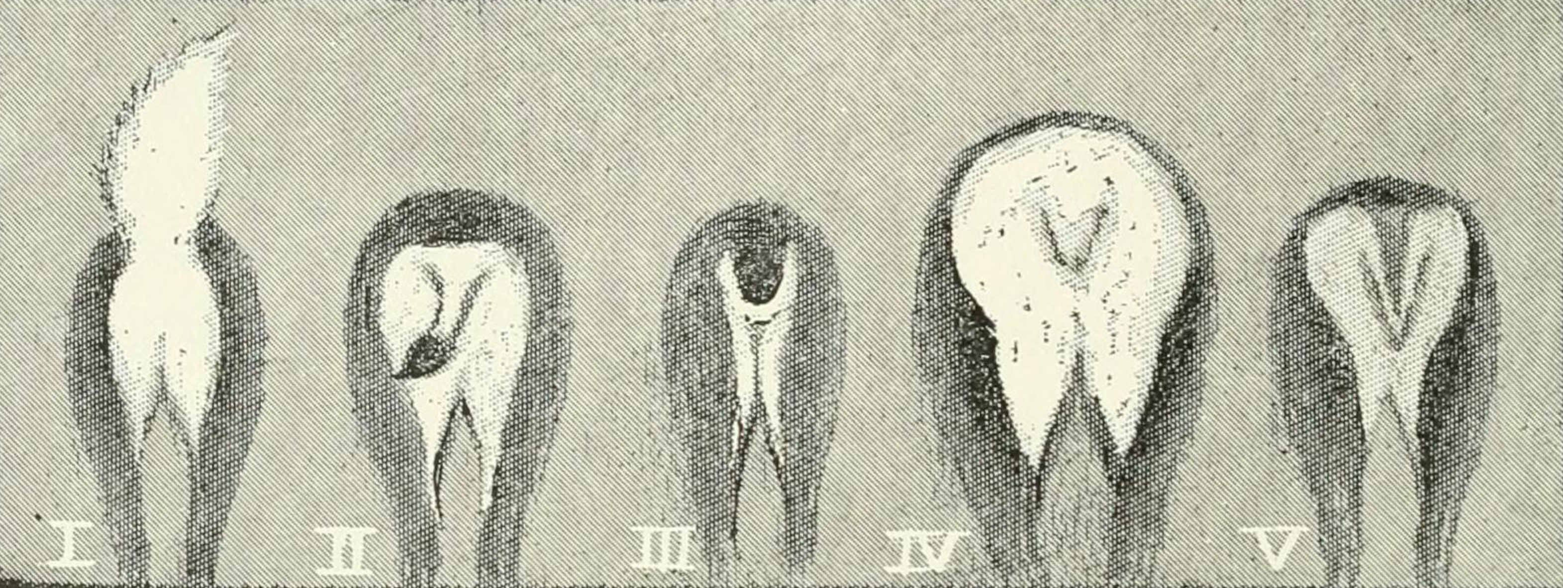 Tails of I) New World white-tail, II) Colorado mule deer, III) Oregon black-tail, IV) Wyoming wapiti, V) British red deer.